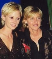 Anne Heche and Ellen DeGeneres at the 1997 Emmy Awards.